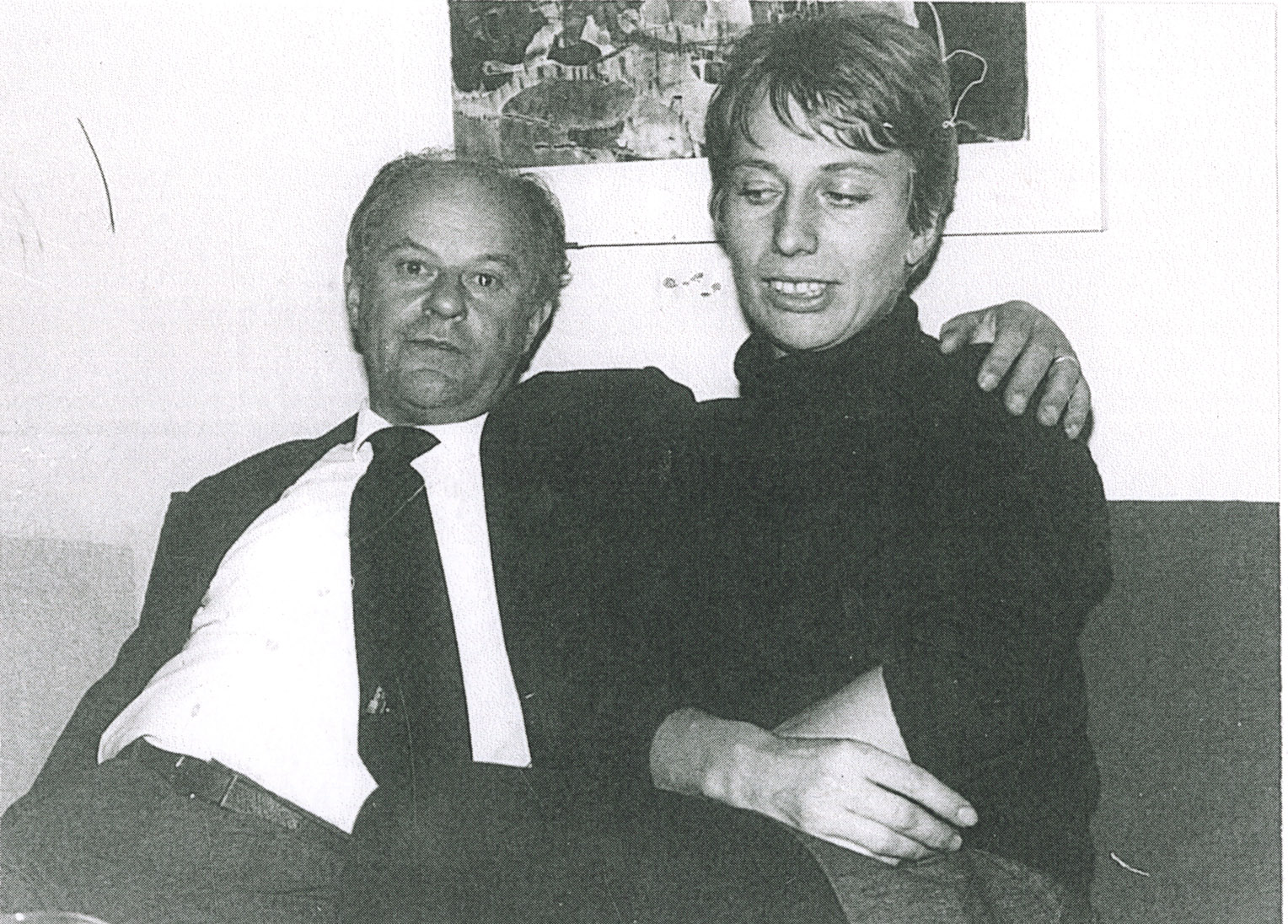 A picture of the art historian Otto Stelzer and his wife Gerda Stelzer (born Millies).